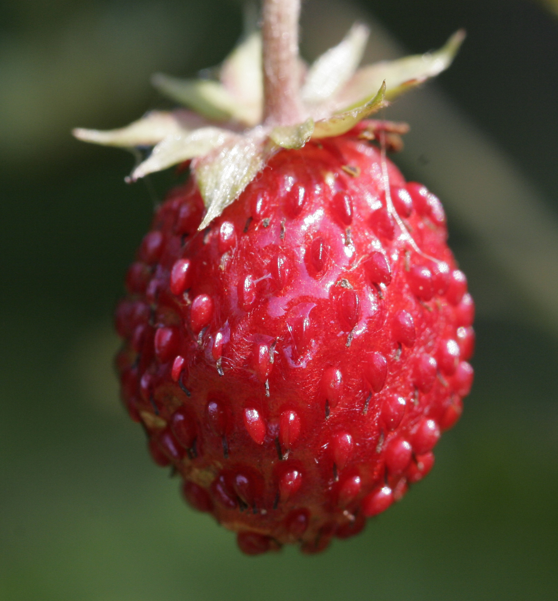 Fragaria vesca